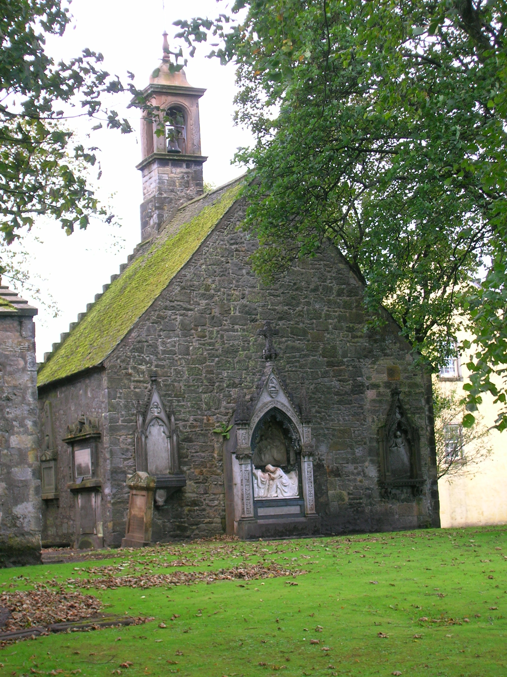 Arear view of Beith Auld Kirk, showing Spier family memorials. North Ayrshire, Scotland.